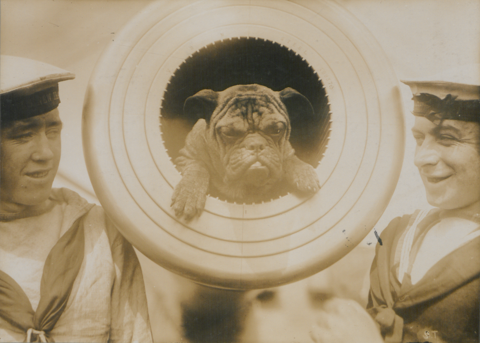 Original caption: "Pelorus Jack: Mascot of HMS "New Zealand"."